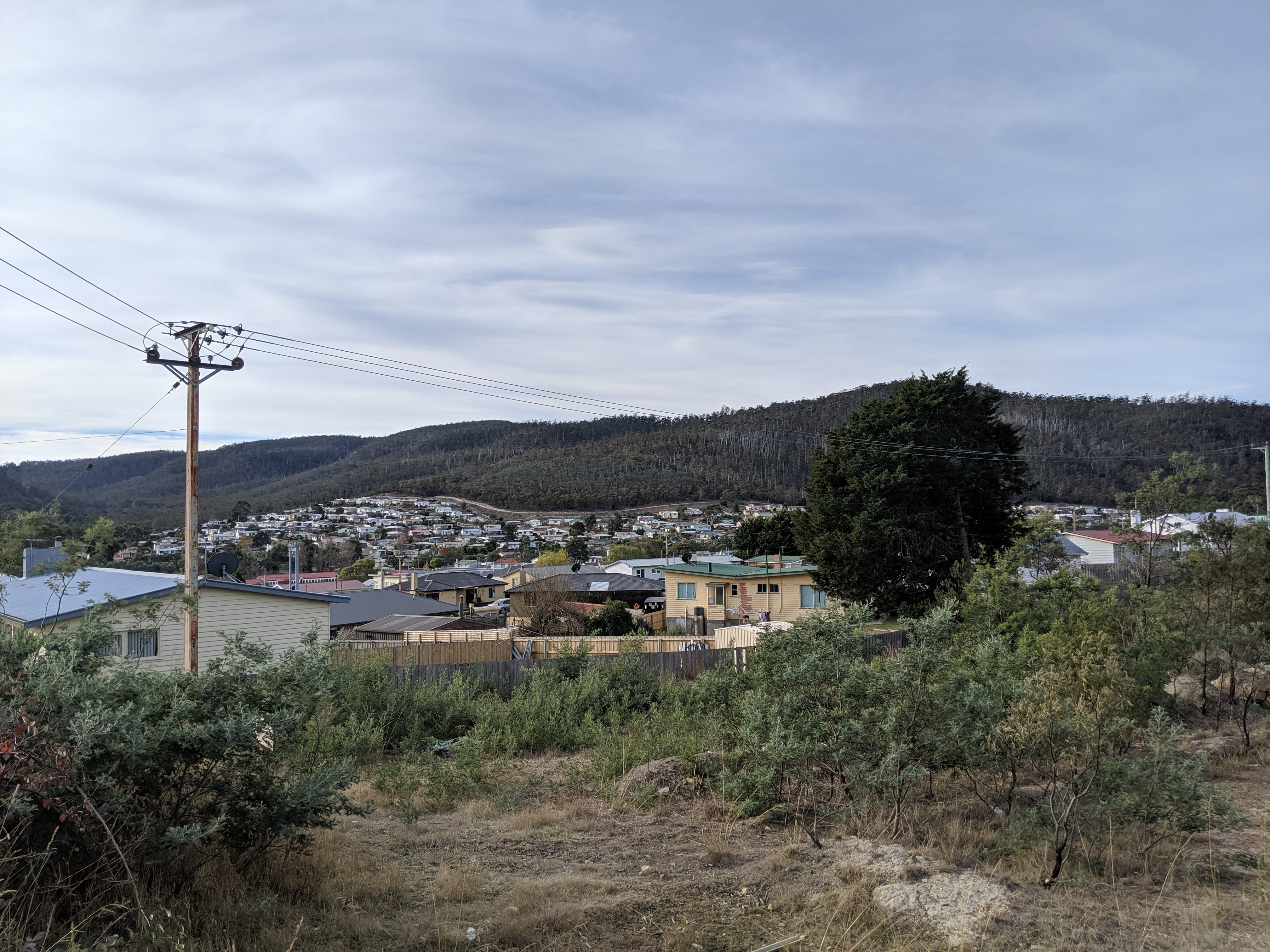 A singular view of Risdon Vale, Tasmania.